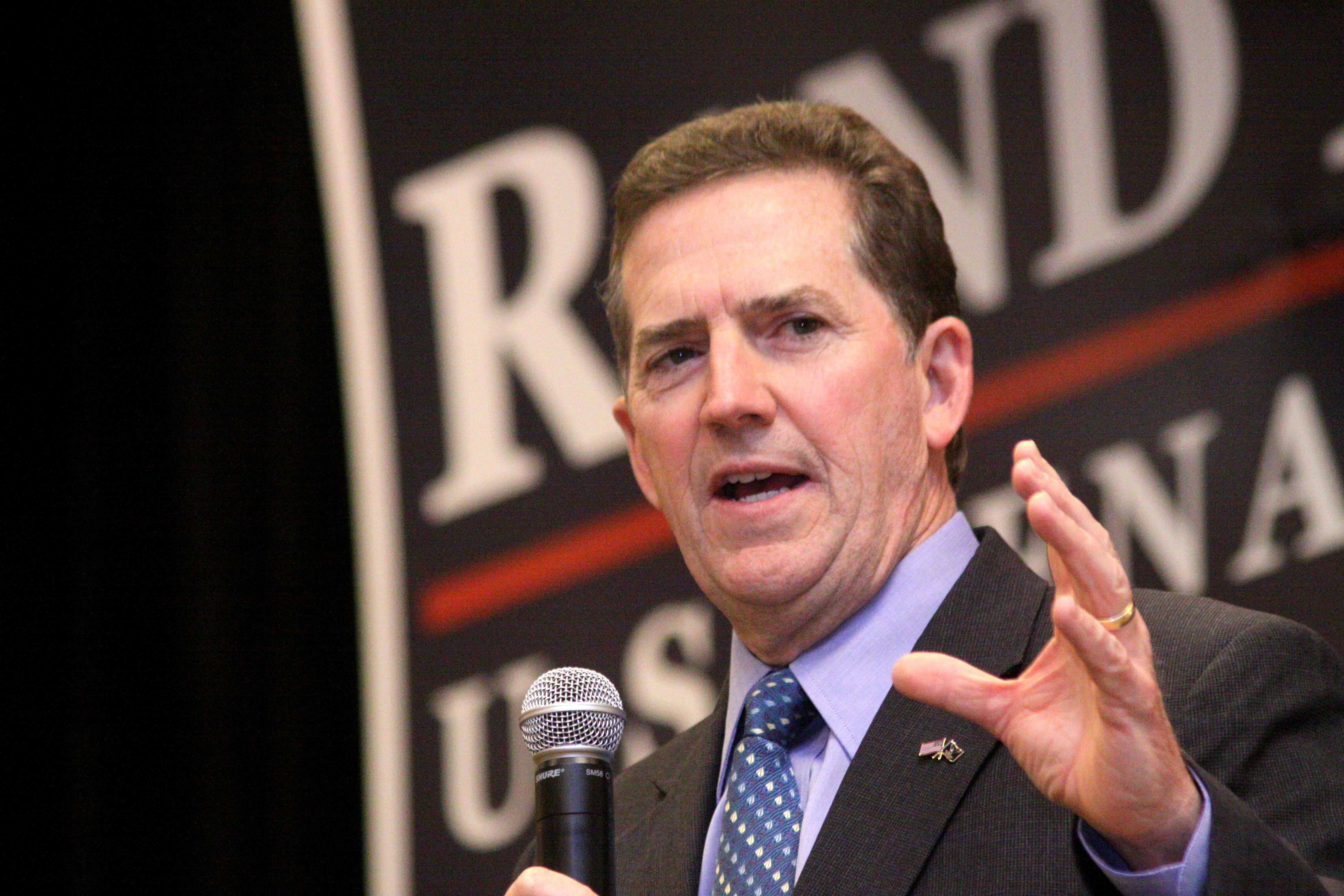 United States Senator Jim DeMint at a rally for United States Senate candidate Rand Paul in Erlanger, Kentucky.